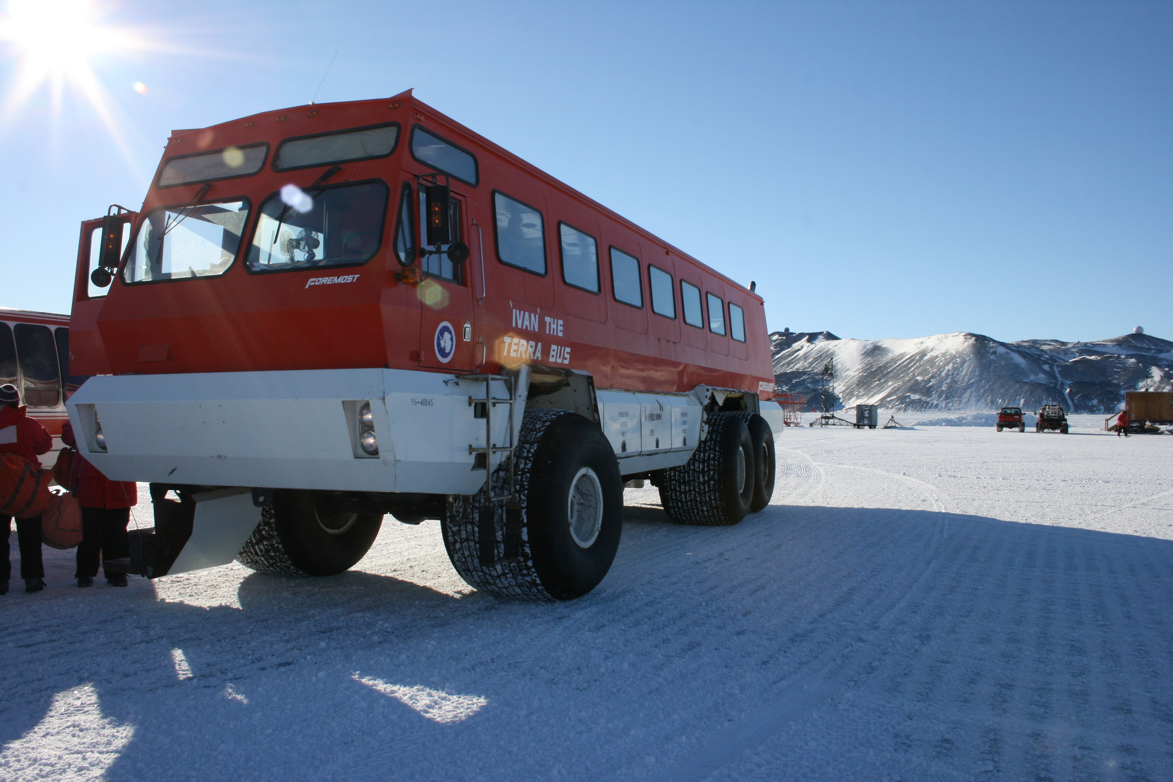 "Ivan" the Terra Bus. Antarctica: Seattle to McMurdo